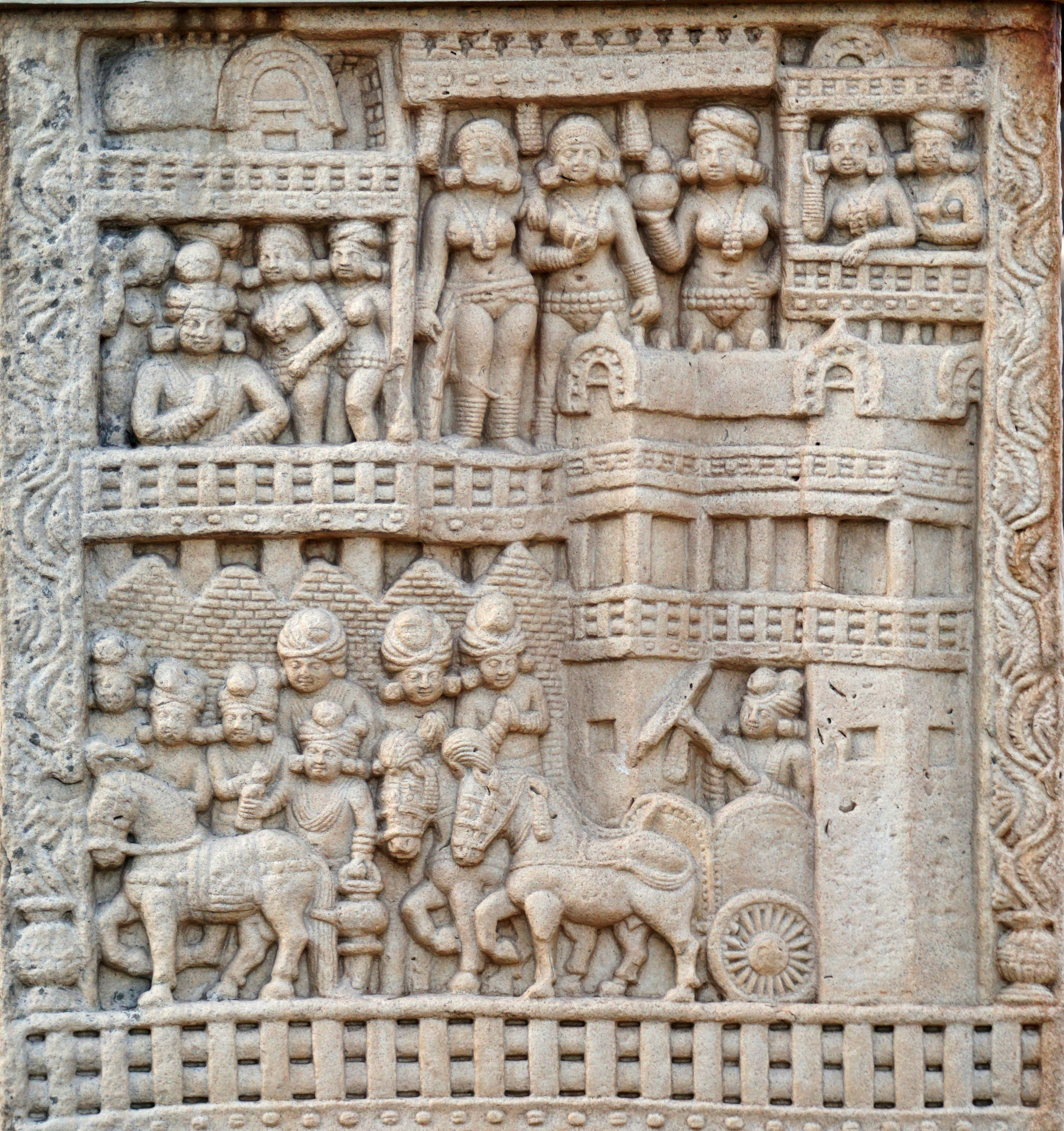 Departure of the Buddha from Kapilavastu Sanchi Stupa 1 Northern Gate. Altenatively, King Suddhodana drives out of the Palace, North Gate, Stupa no. 1, Sanchi, photograph by Anandajoti Bhikkhu. Marshall p.56. The local sign says it is indeed the Great Departure scene.